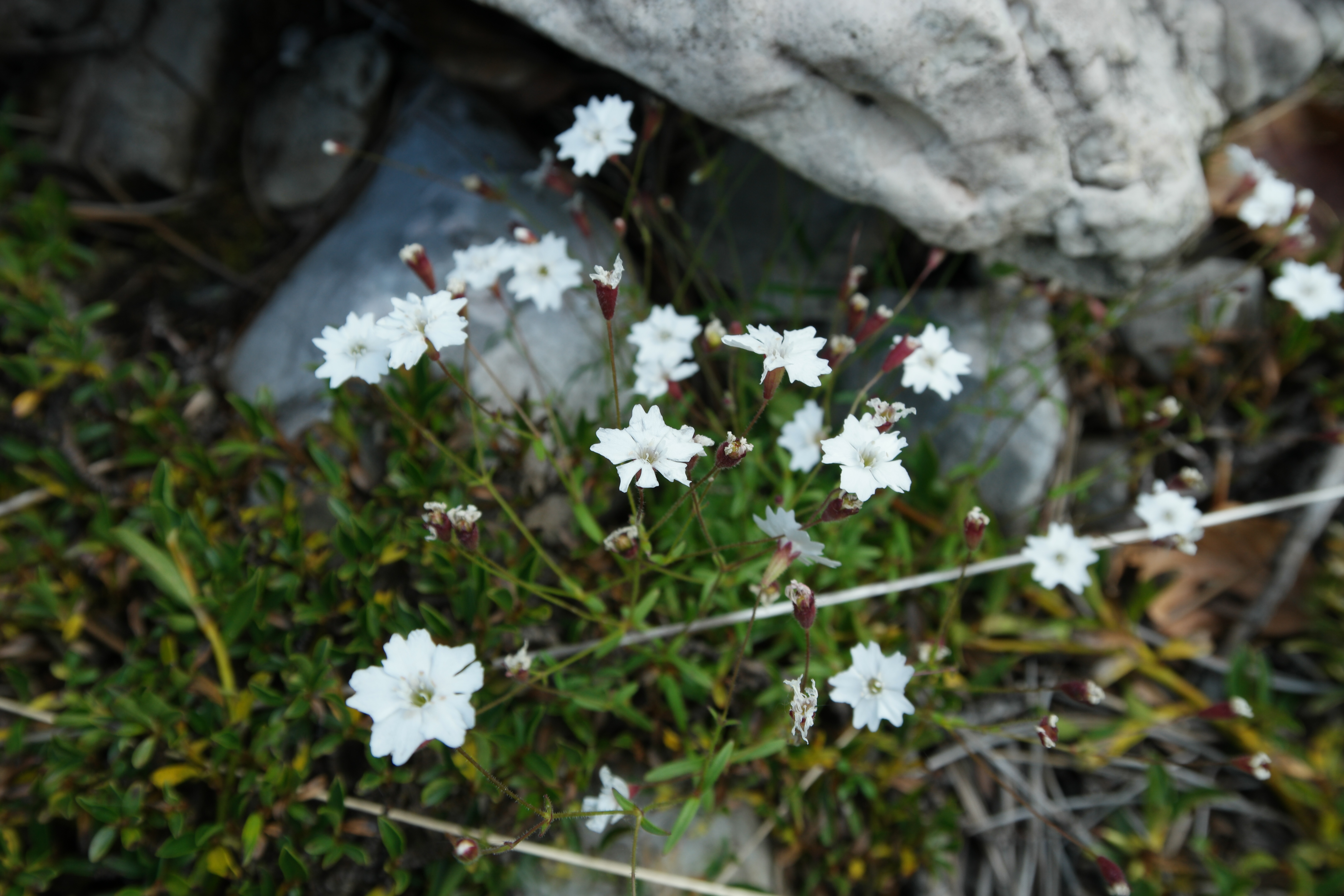 Heliosperma pusillum subsp. monachorum (Vis. & Pančić) Niketić & Stevan, Velika Jastrebica, Mt Orjen Montenegro